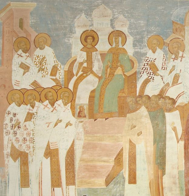 Irene and Constantin on Seventh ecumenical council